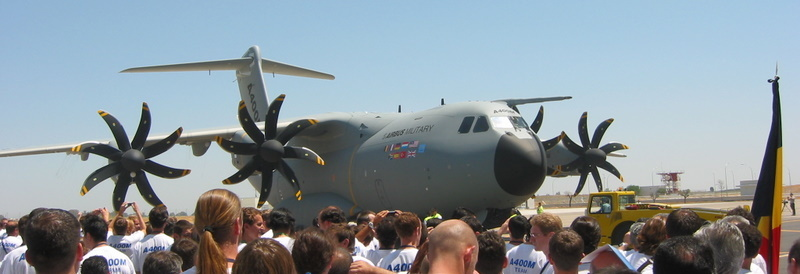 The first Airbus A400M, surrounded by EADS employees, during the first aircraft's world presentation (roll-out), celebrated in Seville on 26 June 2008.